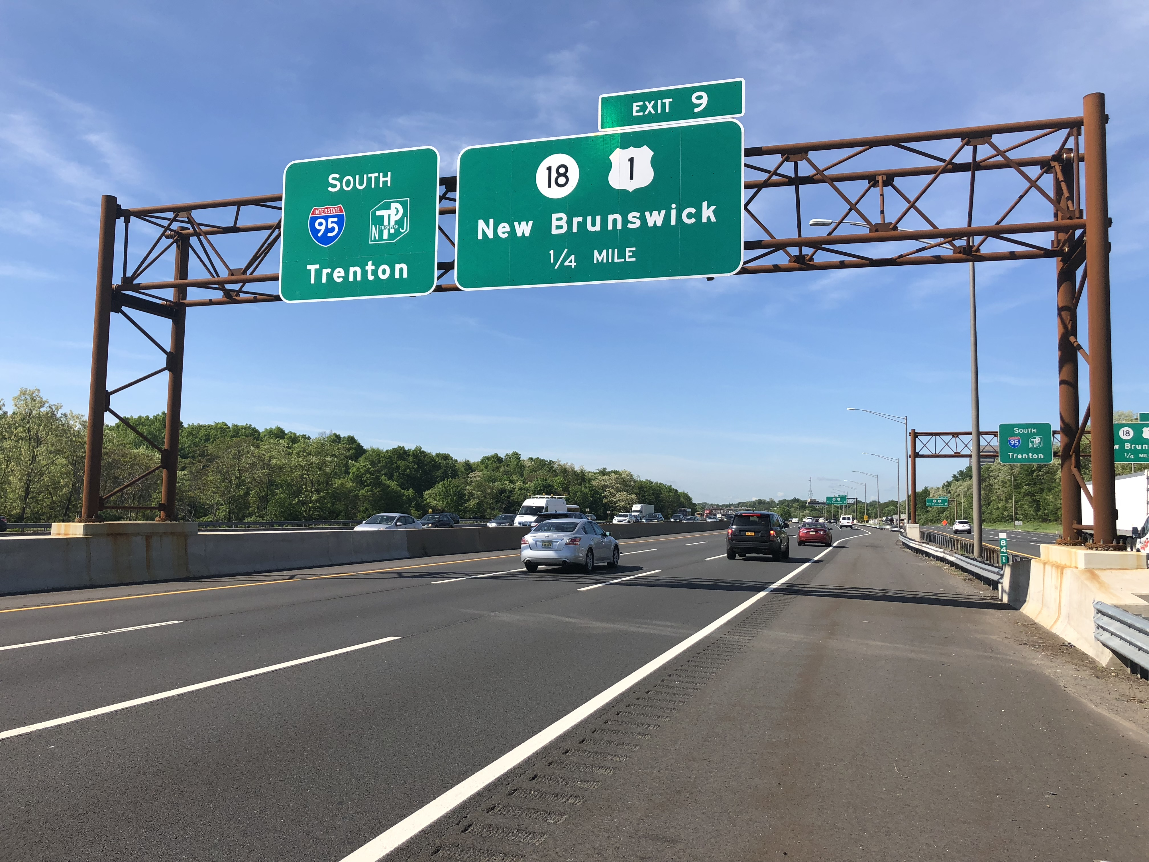 View south along Interstate 95 (New Jersey Turnpike) just north of Exit 9 (New Jersey State Route 18, U.S. Route 1, New Brunswick) in New Brunswick, Middlesex County, New Jersey